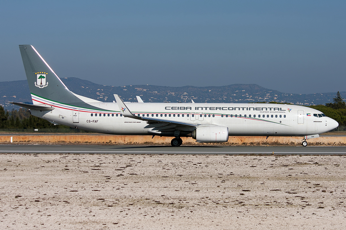 Ceiba Intercontinental Airlines Boeing 737-8FB at Faro Airport